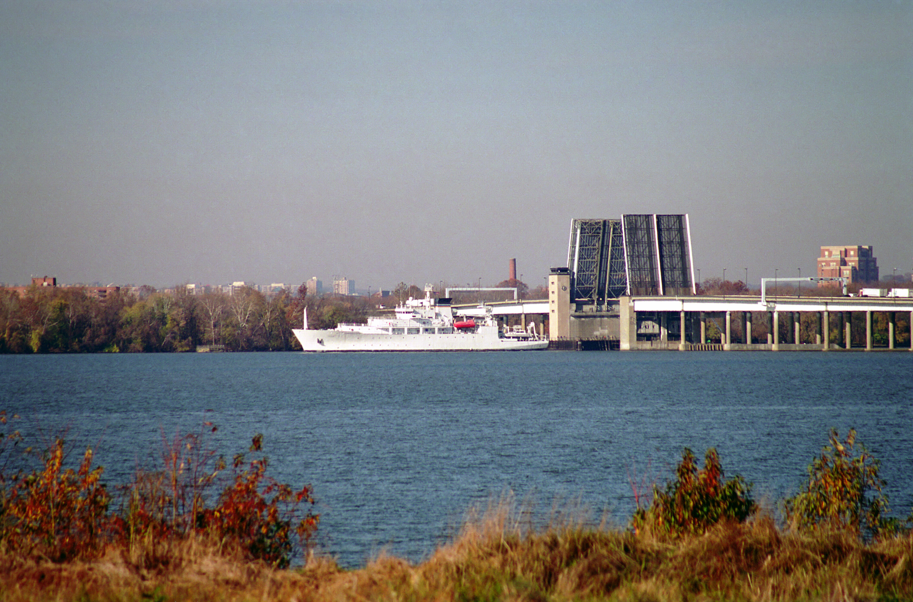 Port side view of the Military Sealift Command (MCS) Oceanographic Survey Ship USNS HENSON (T-AGS 63), passing through the open draw of the Woodrow Wilson Memorial Bridge shortly after departing Alexandria, Virginia.